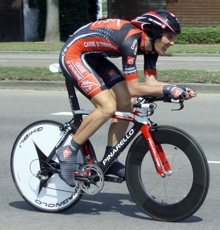 Luis Pasamontes at the 2009 Eneco Tour prologue